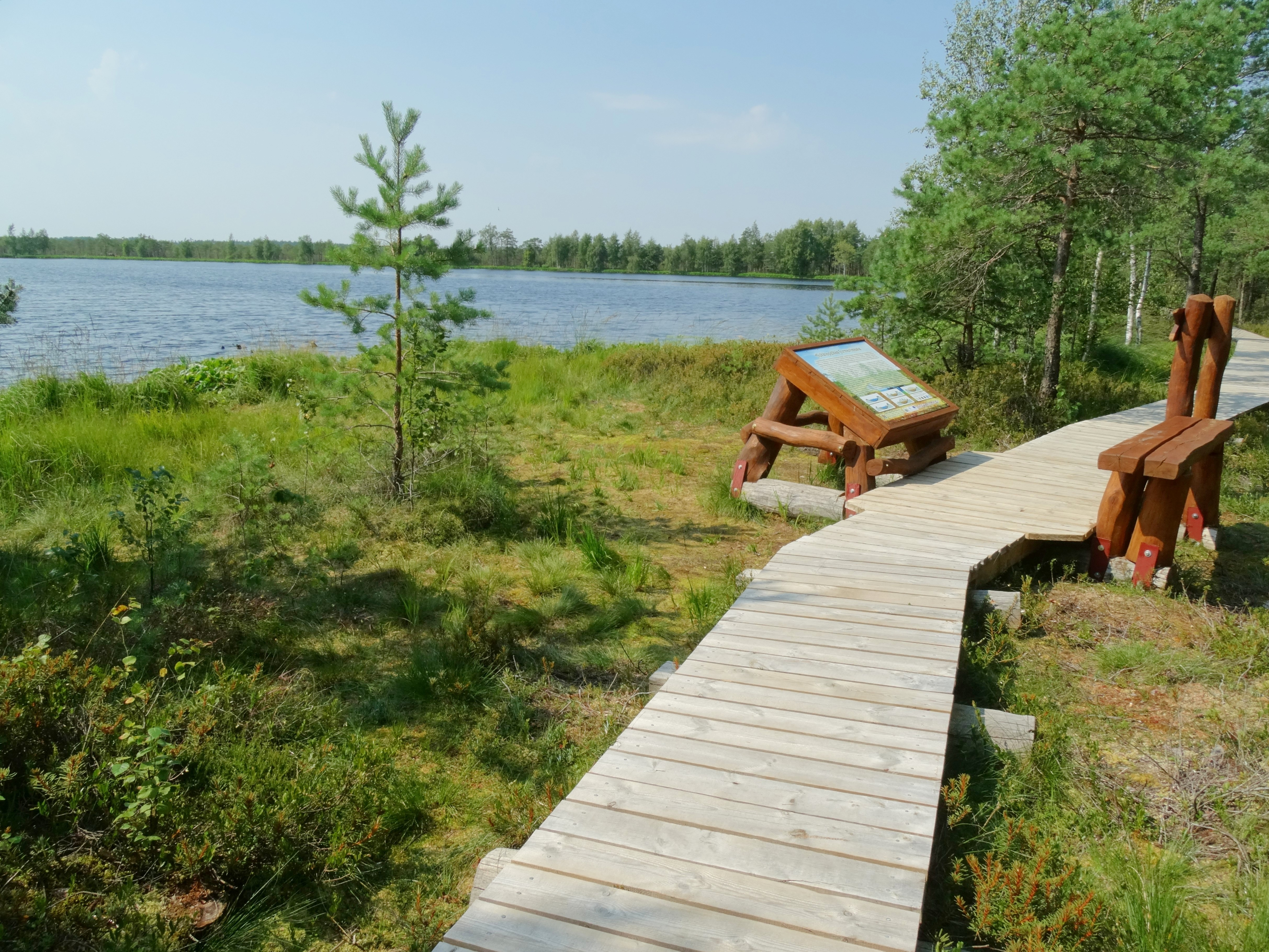 Swamp of Mūšos tyrelis, educational walkway, Joniškis district, Lithuania